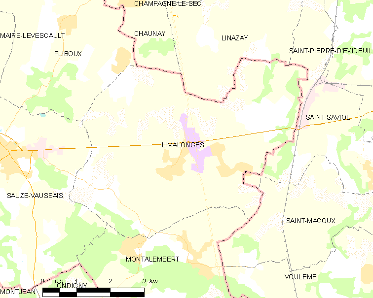 Map of French municipality Limalonges